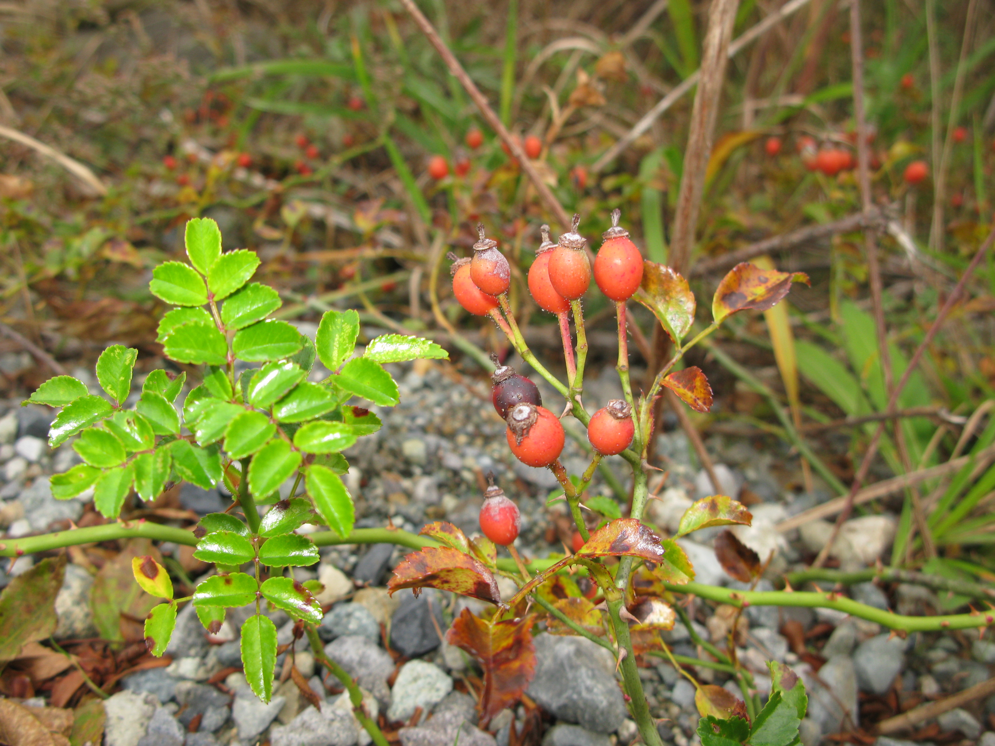 Rosa luciae, Aizu area, Fukushima pref., Japan